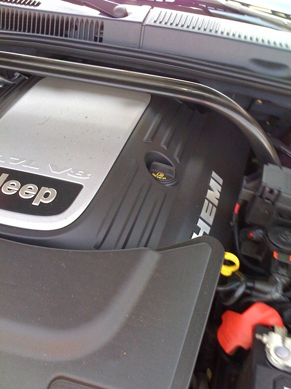 image of a 2005 Jeep Grand Cherokee Limited Hemi 5.7L Motor